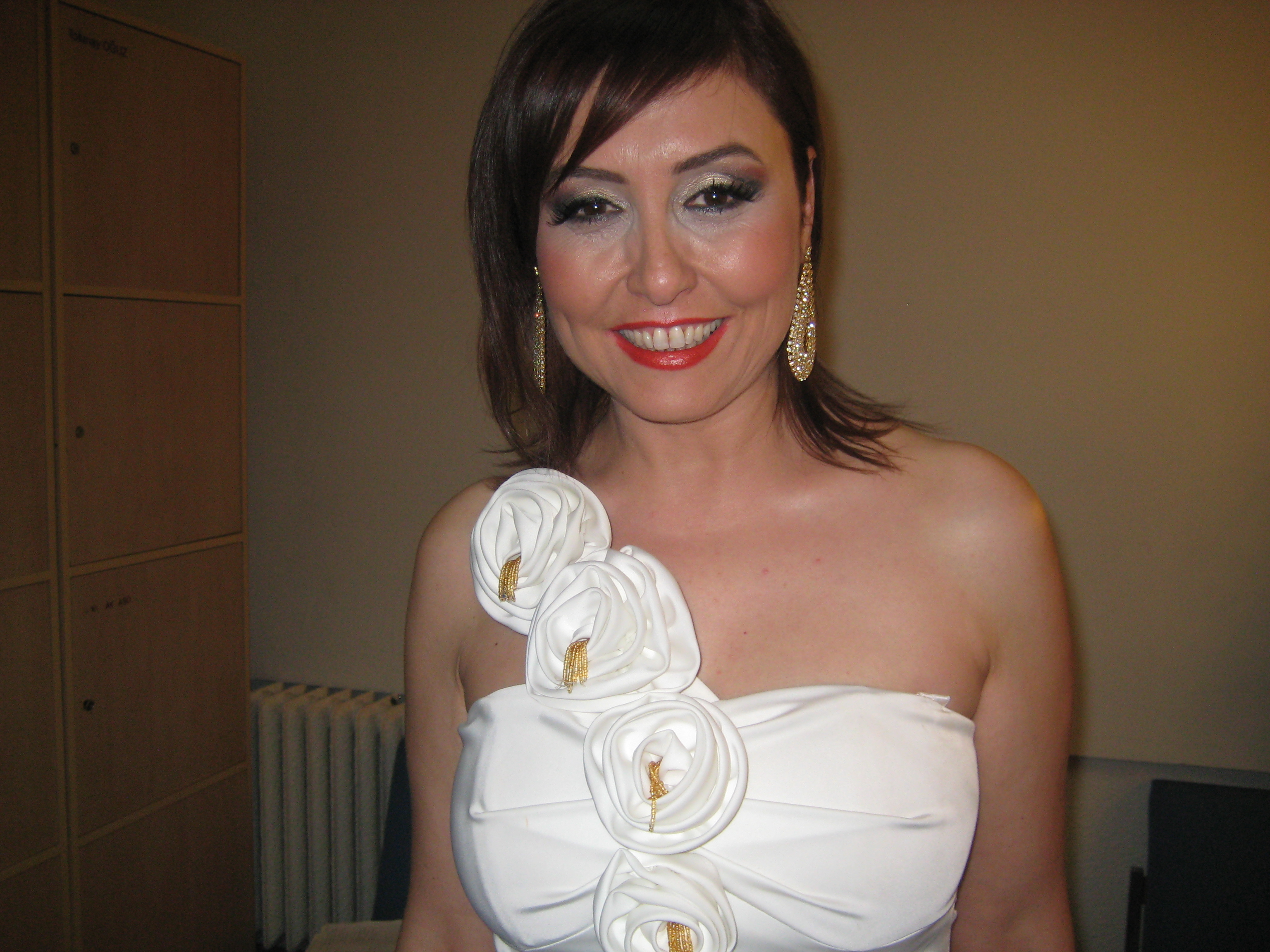 Emine Ata.